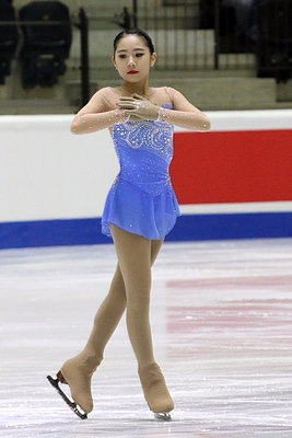 Junior World Championships 2015 – Ladies (Da Bin CHOI KOR – 9th Place)